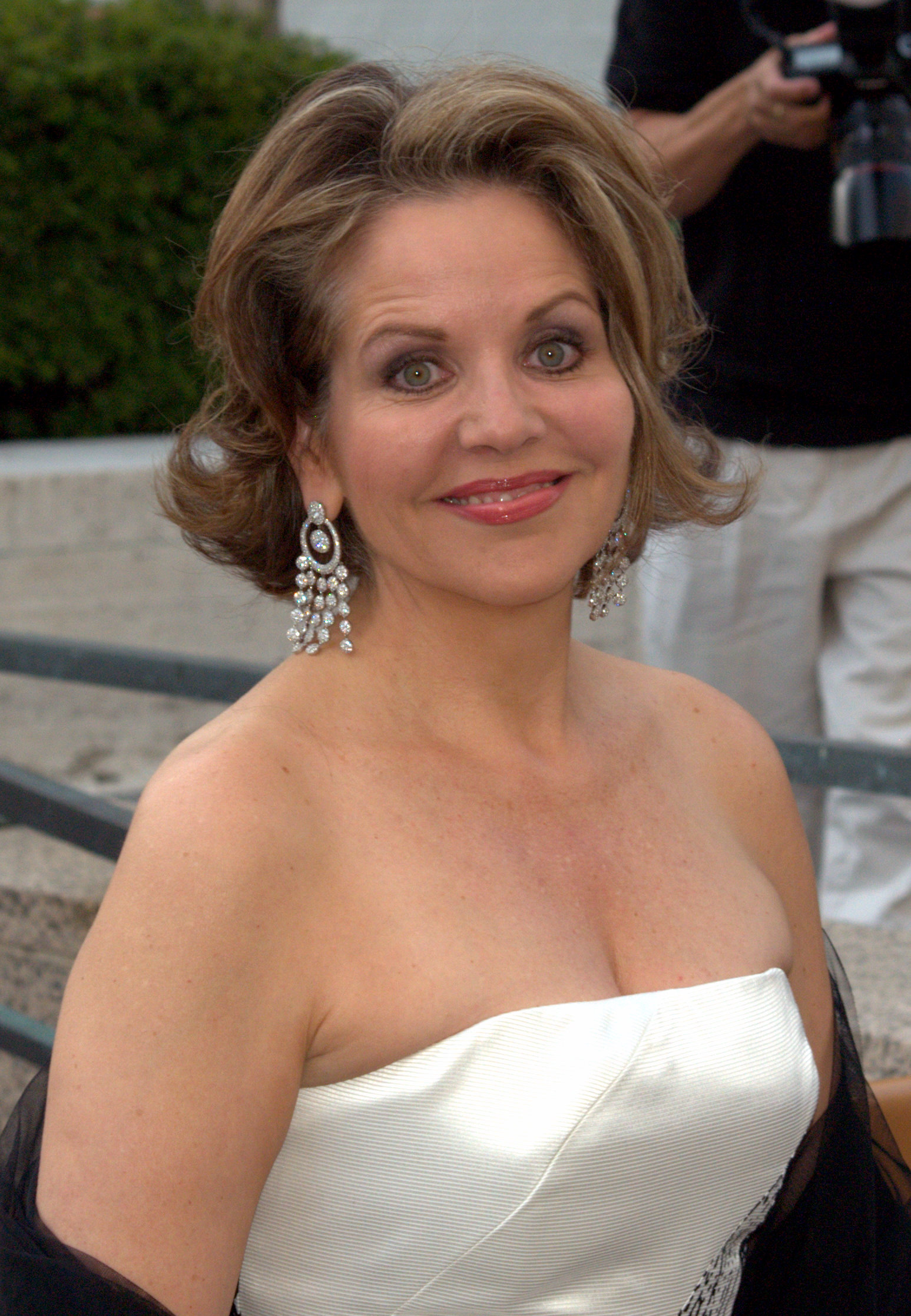 Renée Fleming at the 2009 premiere of the Metropolitan Opera in New York City. Photographer's blog post about event and photograph.